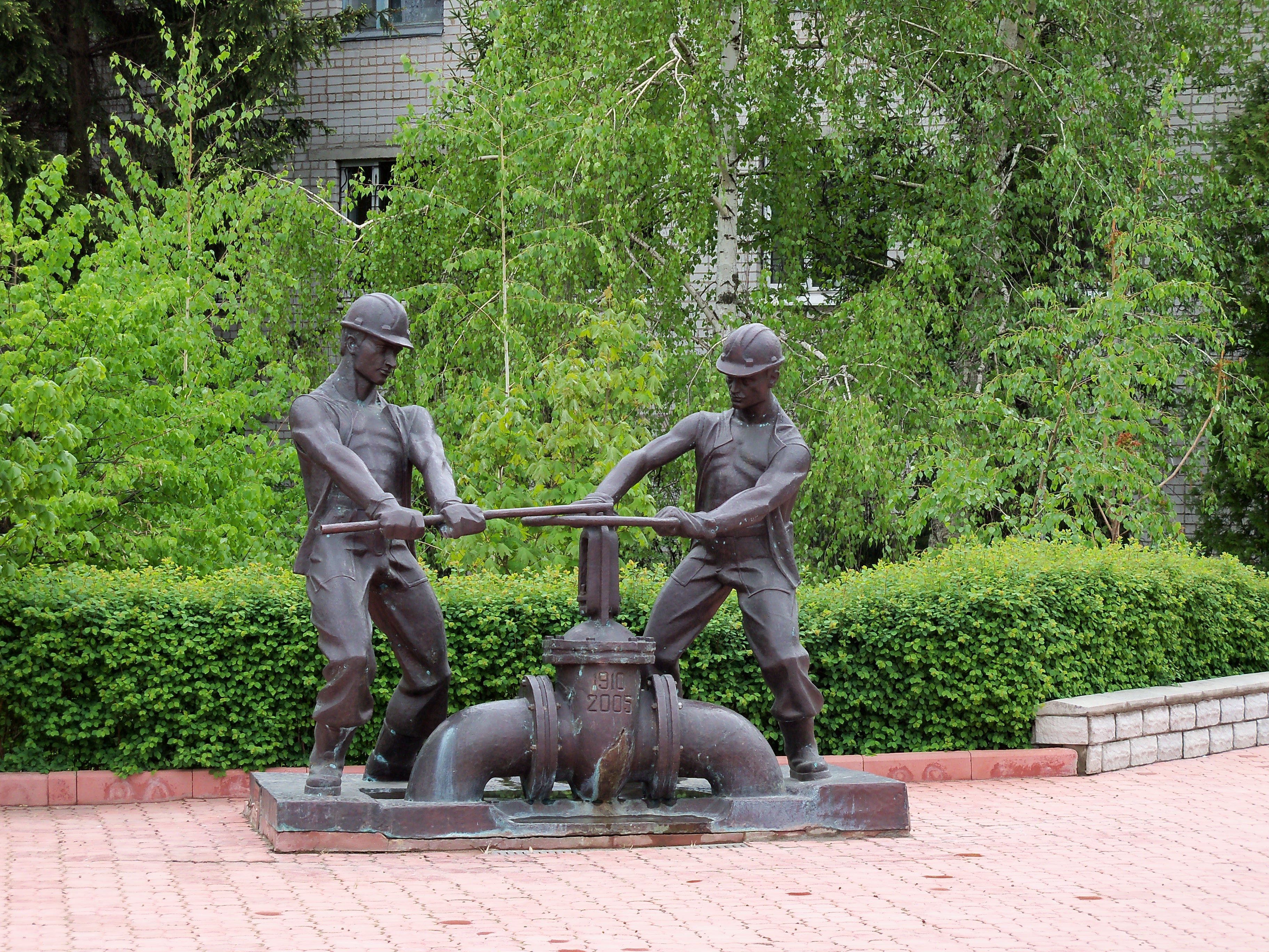 Monument to plumbers in Kremenchuk